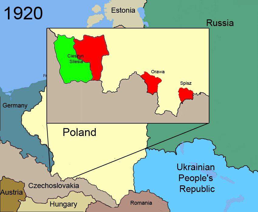 Territorial changes of Poland